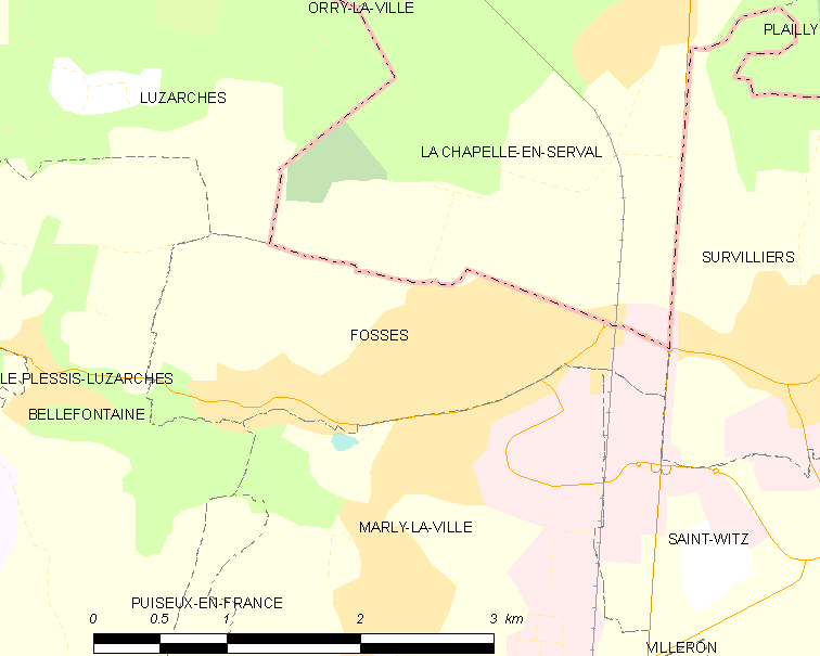 Map of French municipality Fosses